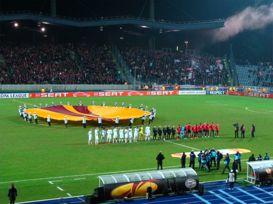 Lille LOSC vs PSV Eindhoven (Europa League)